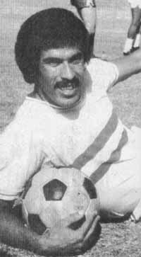 Hassan Shehata in Zamalek 1975